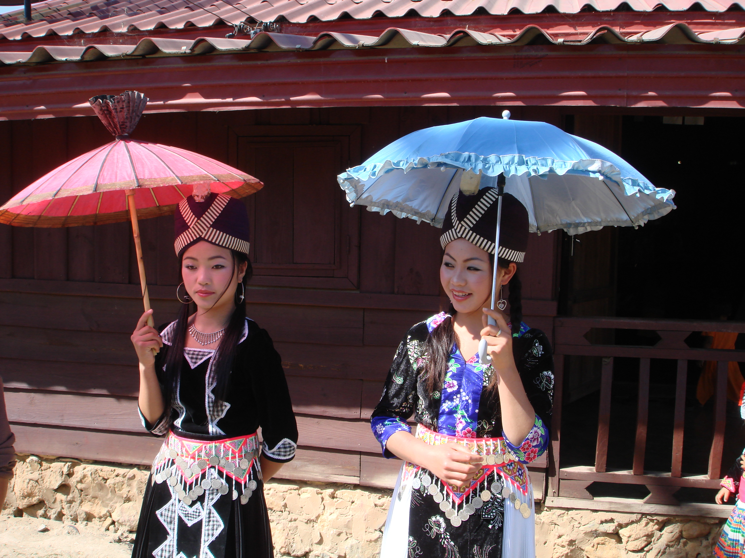 Two girls participating Hmong New Year